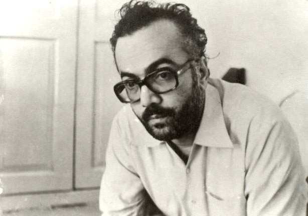 Photos Islamic leader Ellameh Ahmad Moftizadeh